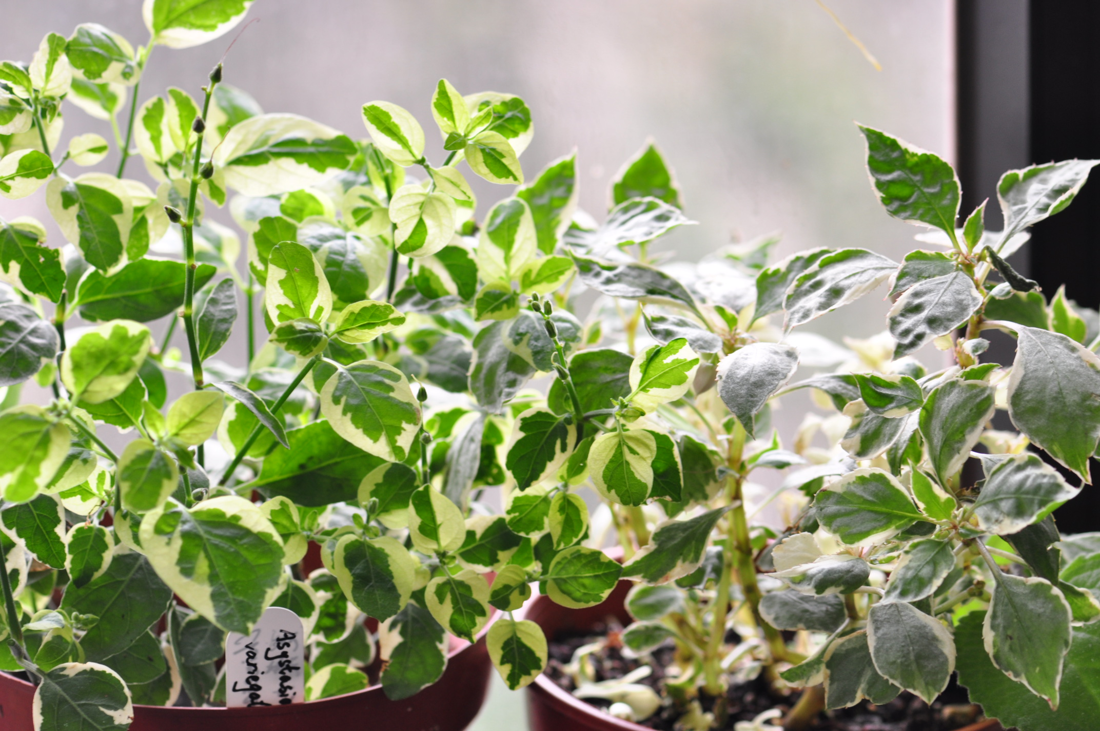 Asystasia gangetica 'Variegata' (left) Impatiens walleriana 'Variegata' (right)